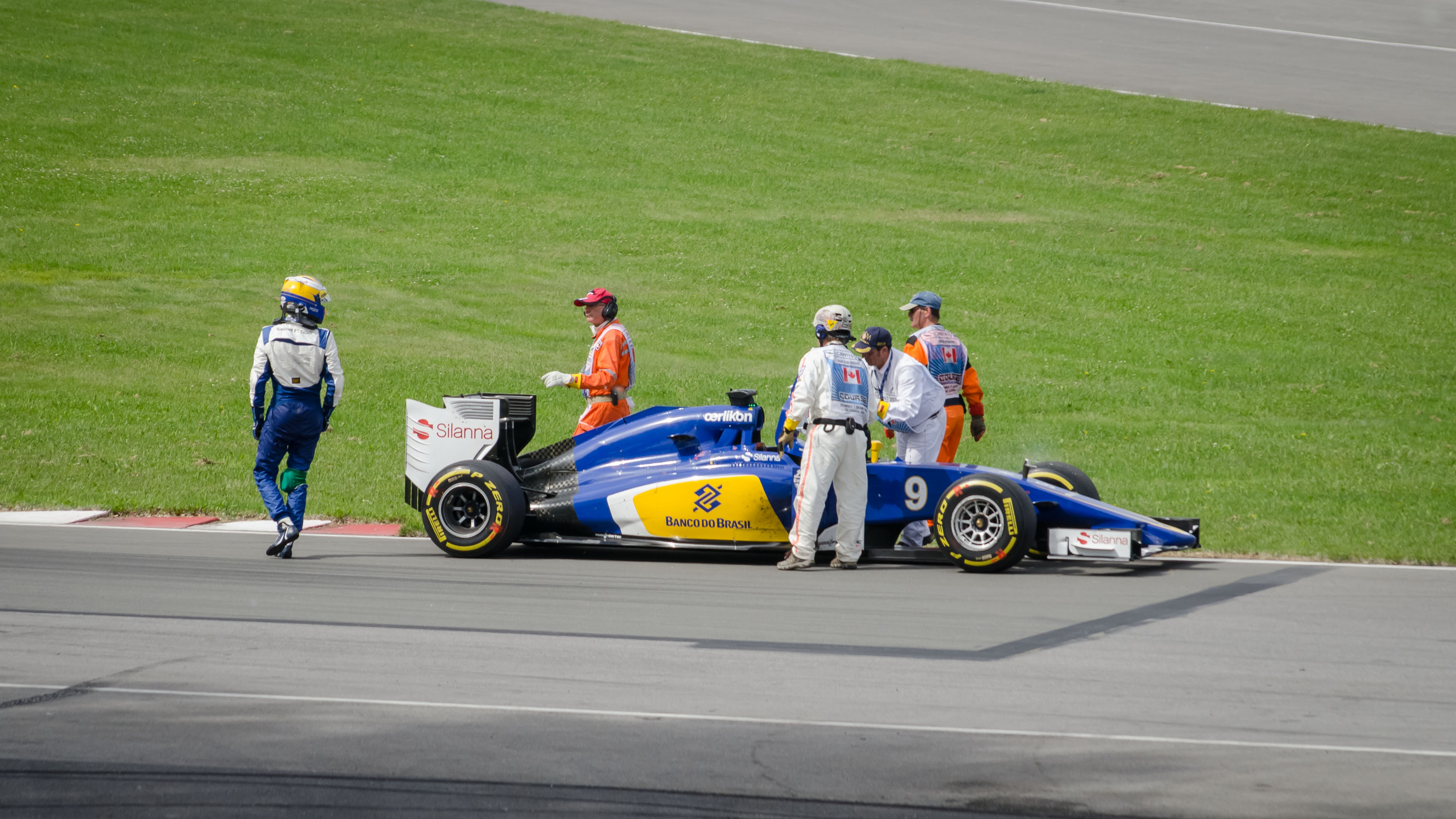 Marcus Ericsson retires from the 2015 Canadian Grand Prix